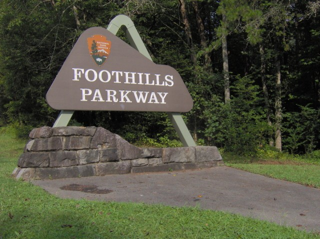 Entrance to the Chilhowee section of Foothills Parkway in Walland, Tennessee (Southeastern U.S.).